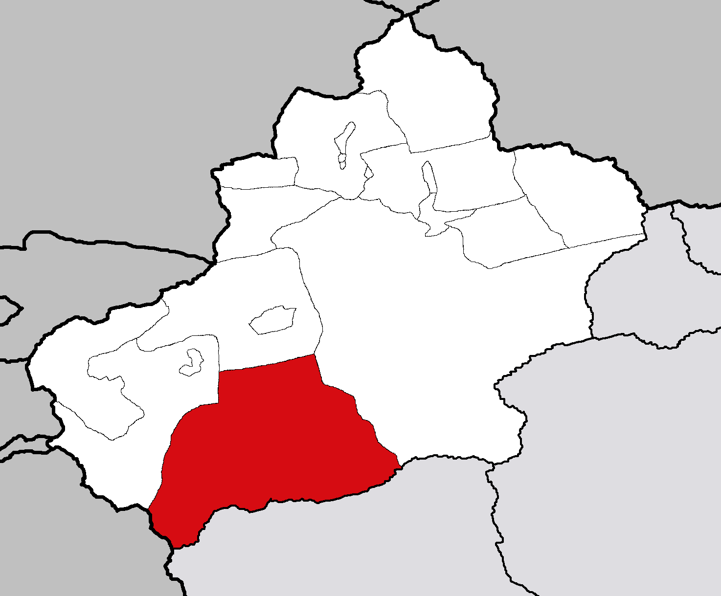 Maps of Xinjiang Uygur Autonomous Region of China